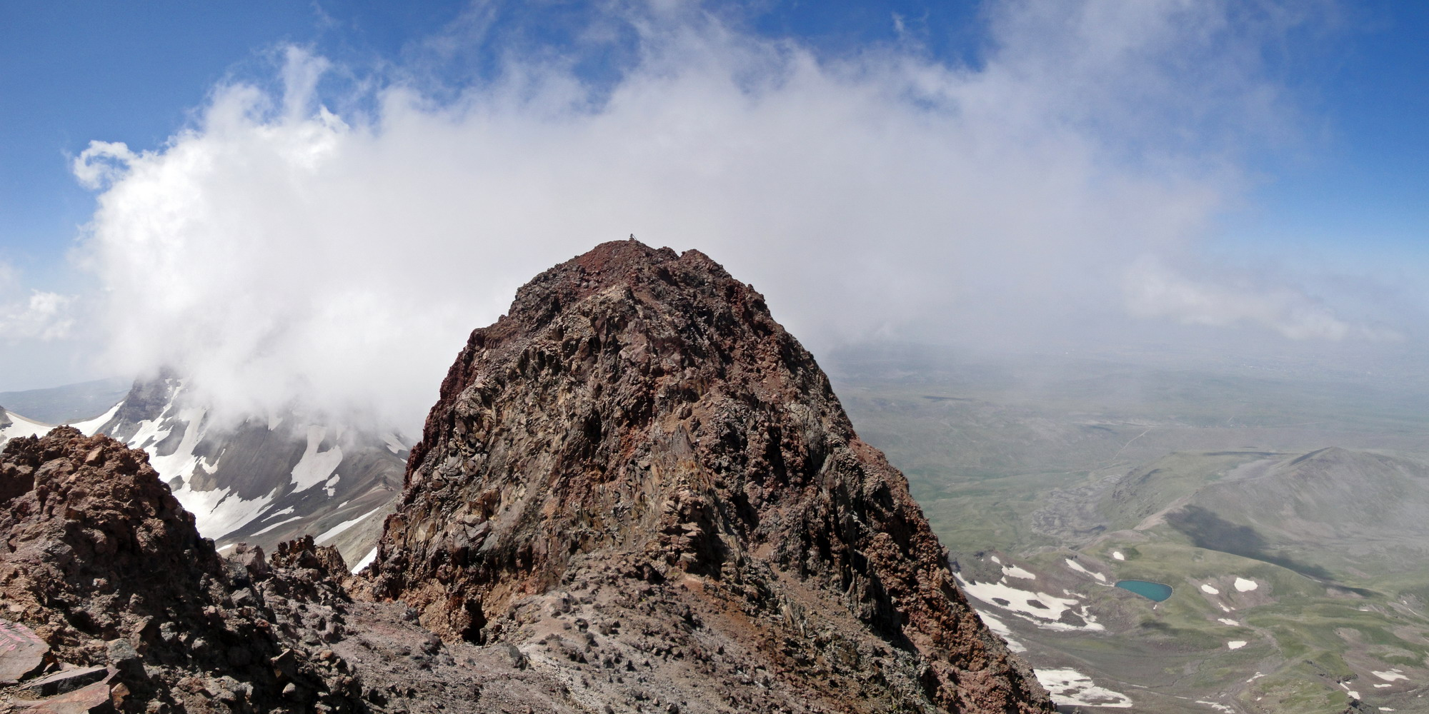 True summit of Aragats view from false summit